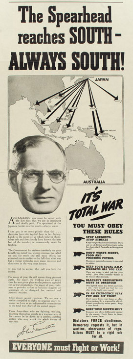 Australian War Memorial (AWM) catalog number RC02368 Sourced from: Copyright: This leaflet was published by the Australian government prior to 1945. As a result it is now in the public domain. Higher resolution images may be ordered through the AWM (Source: email from the AWM to Nick Dowling 6 January 2006). AWM Caption: A message, from John Curtin, encouraging everyone to contribute to the war effort. It also features a map of the Japanese advance though Asia and a list of rules that 'must' be obeyed. The copyright has expired on this image. Higher resolution versions of this image may be ordered through the AWM Website at